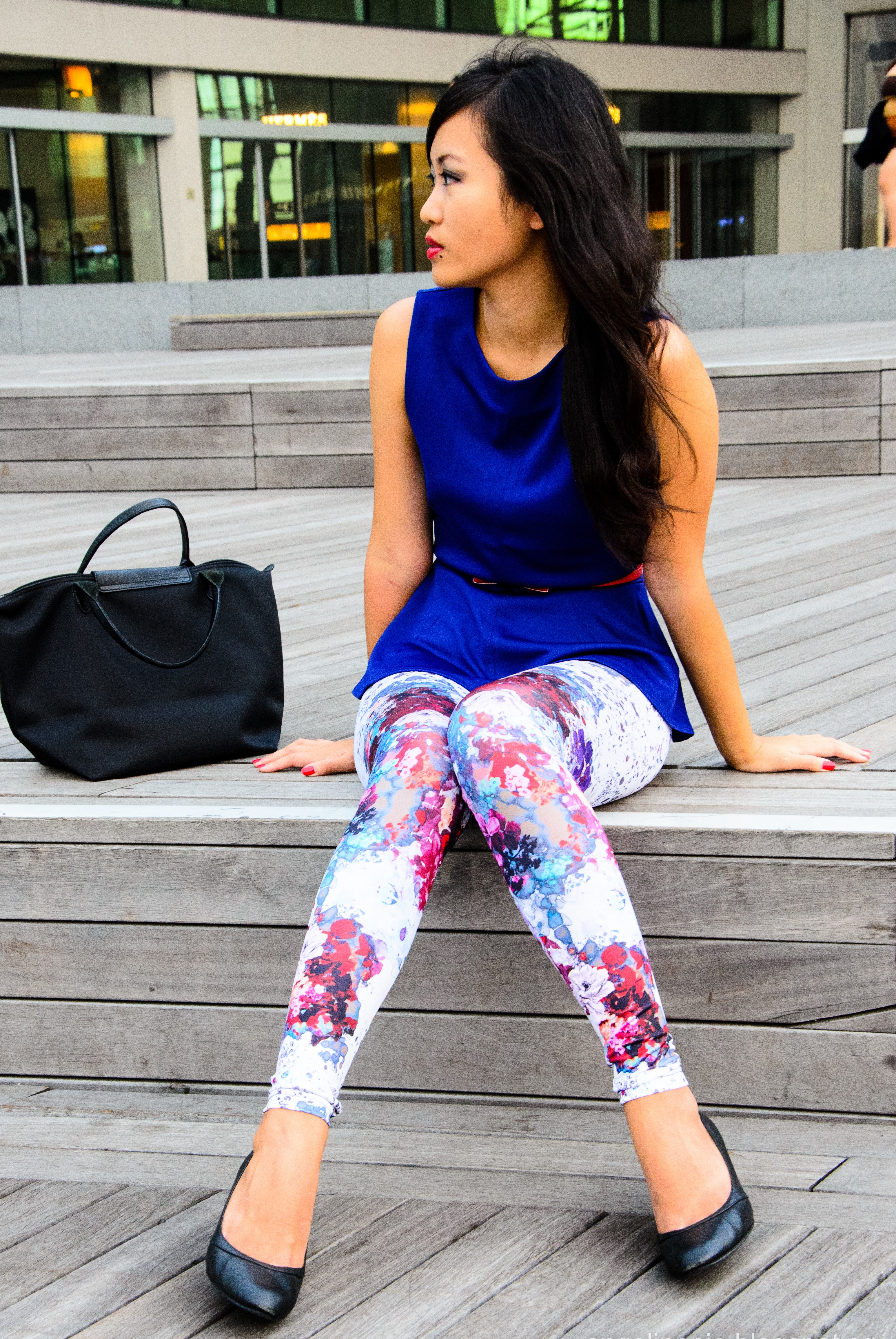 Woman wearing a blue top and leggings.